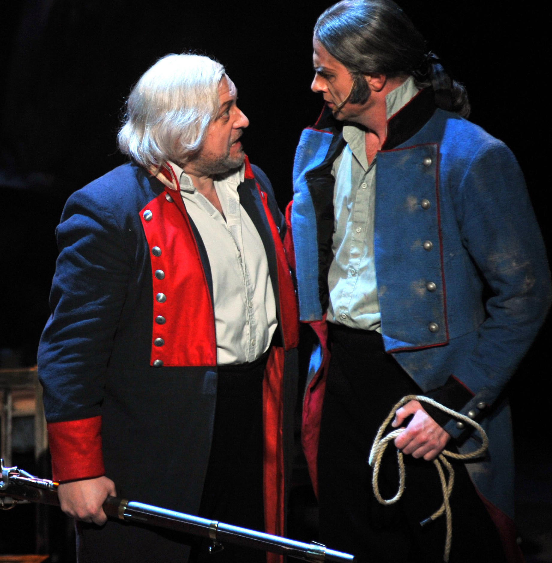 The musical Les Misérables by Městské divadlo Brno (from the left: Jan Ježek, Igor Ondříček)